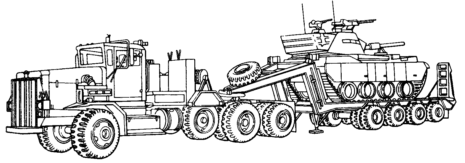 The M911 Truck Tractor is used as a prime mover of a heavy equipment transporter (HET) semitrailer.